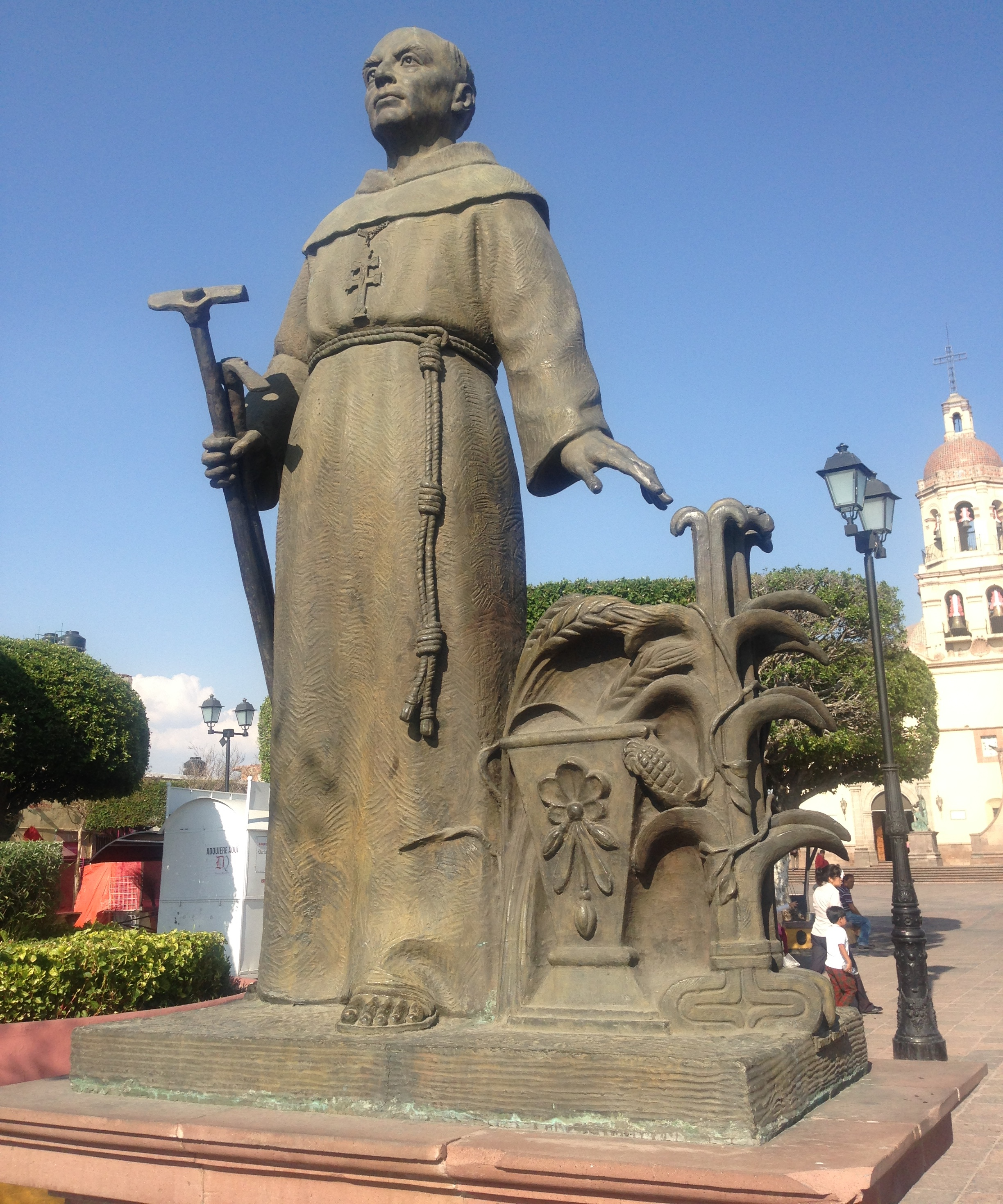 Life-size bronze sculpture artwork of Alberto Perez Soria depicting Friar Junipero Serra (1713 - 1784) located on the atrium of Holy Cross Church in Queretaro.